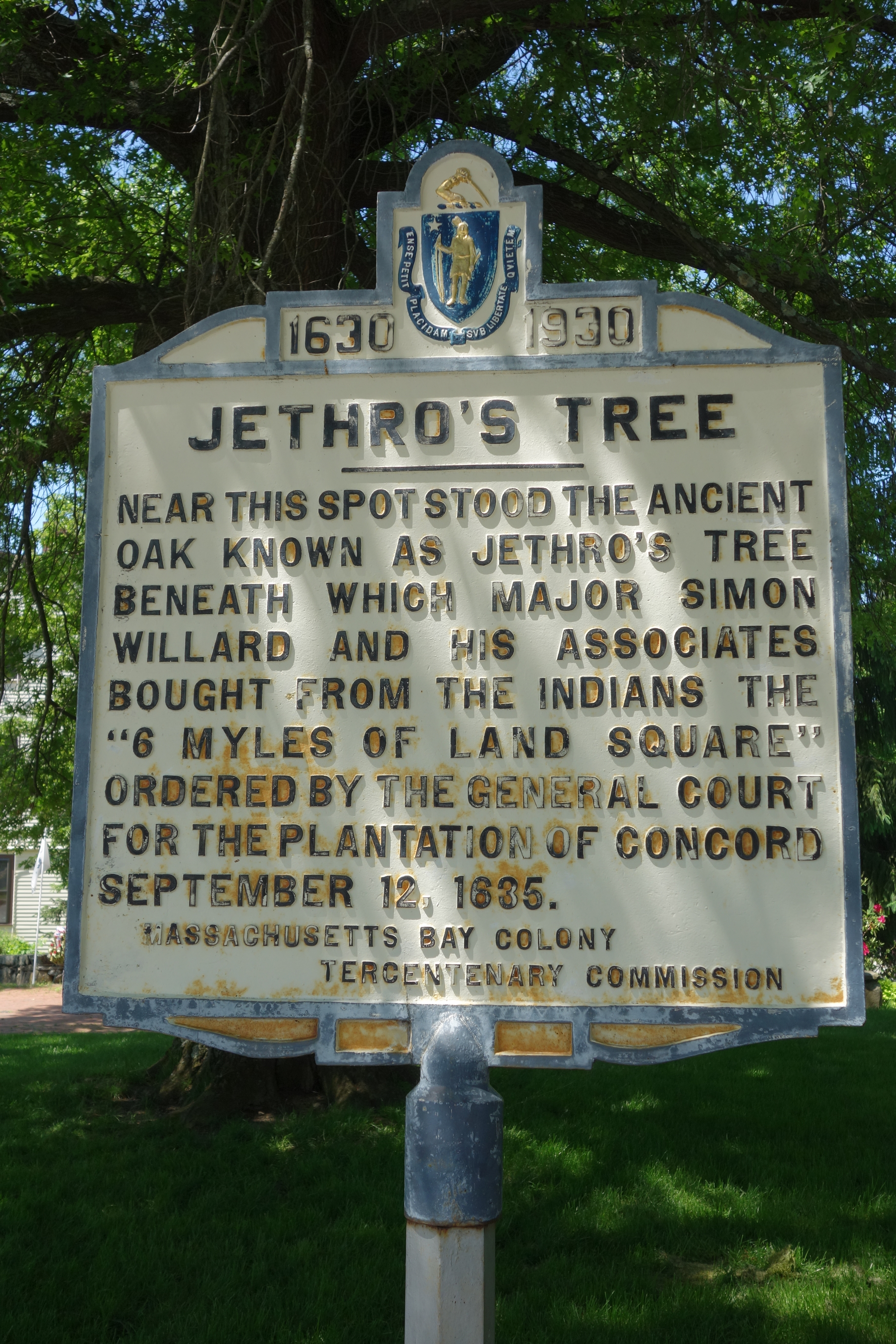 Jethro's Tree memorial, Concord, Massachusetts, USA.